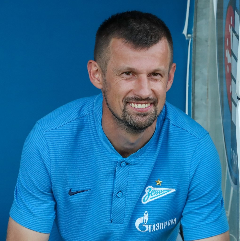 21.07.2018. Италия, Пиза. Третий «Газпром» — тренировочный сбор: товарищеский матч «Интер» — «Зенит».